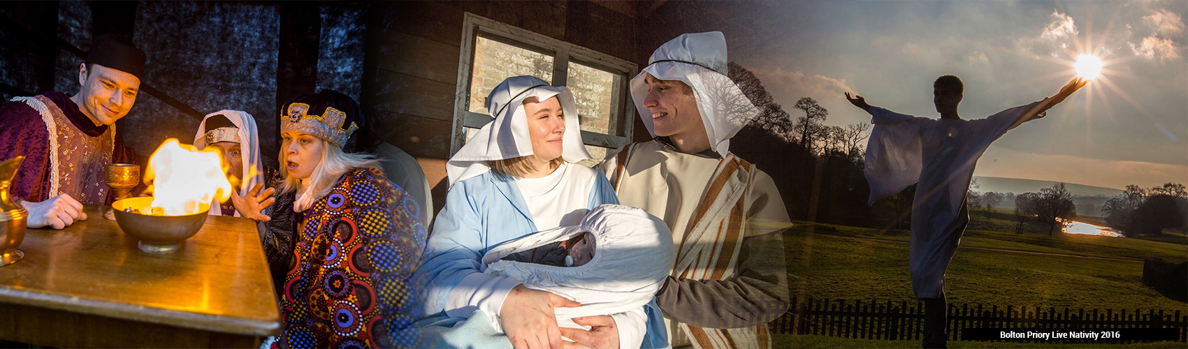 Bolton Priory Live Nativity